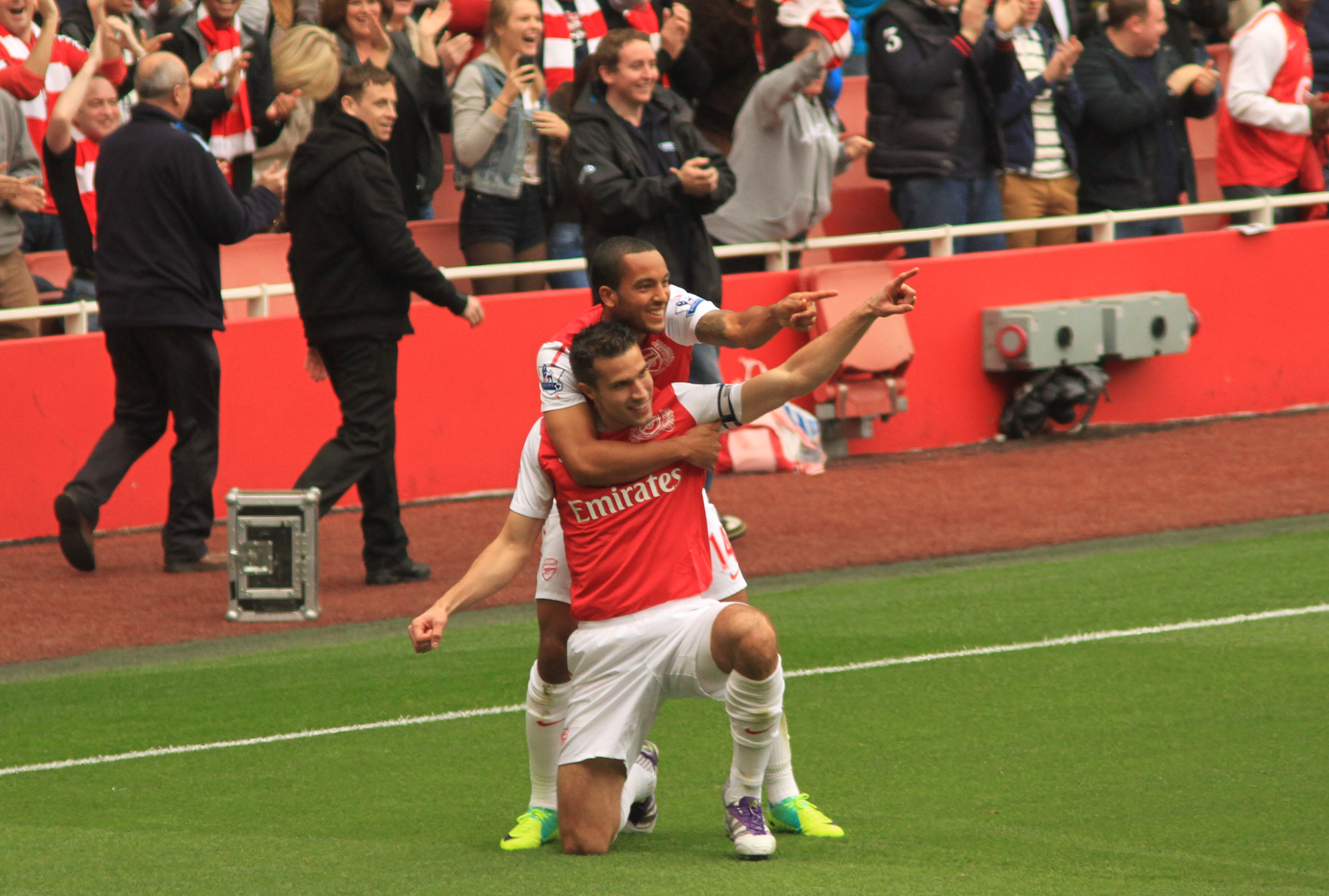 Robin van Persie and Theo Walcott celebrate Van Persie's goal against Sunderland.